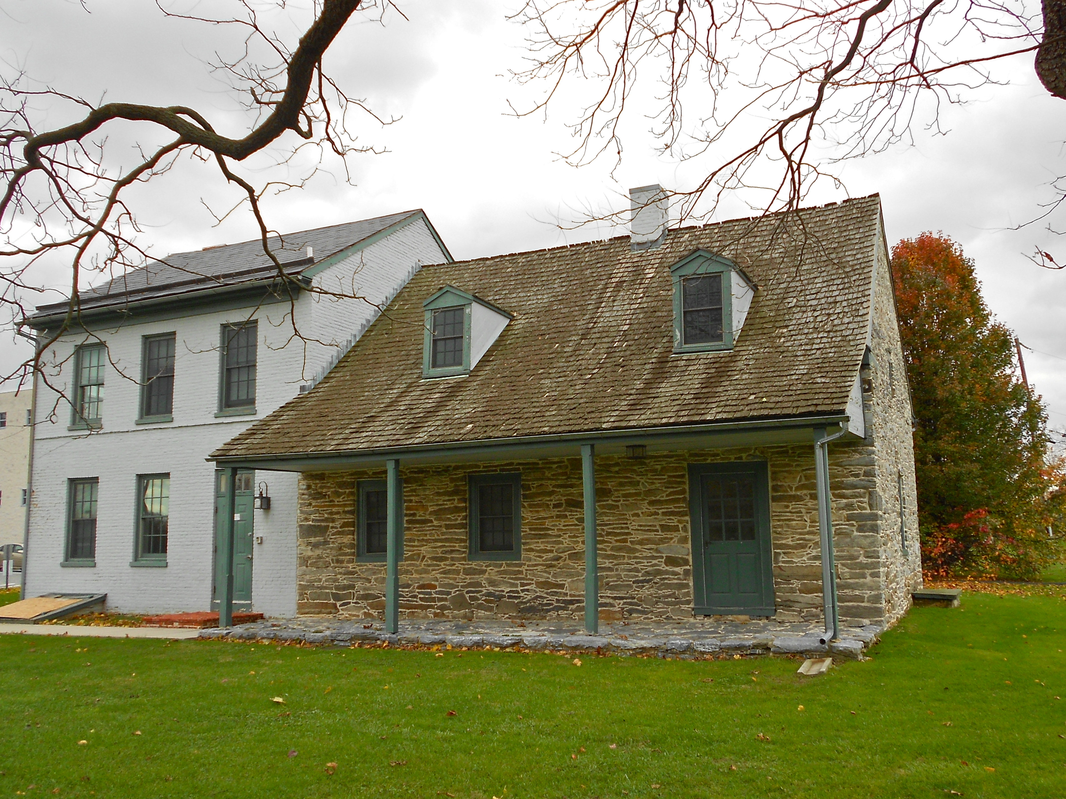 Strickler Family Farmhouse listed on the NRHP on February 21, 1991 at 1205 Williams Road, east of York in Springettsbury Township, York County, Pennsylvania. (On the property of York County Jail near the INS facility. There are 3 parts to this house, the oldest is the stone dwelling mainly seen here, the middle is off to the left (white) and the youngest one is behind these two.